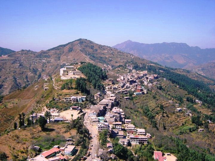 Aerial view of Theog Town Photo by Pradeep